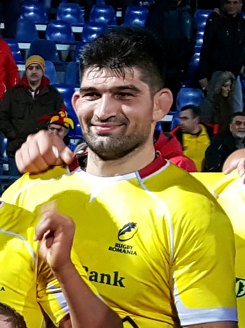 Andrei Gorcioaia of Romania National Rugby Team after a test match against United States National Rugby Team in November 2016